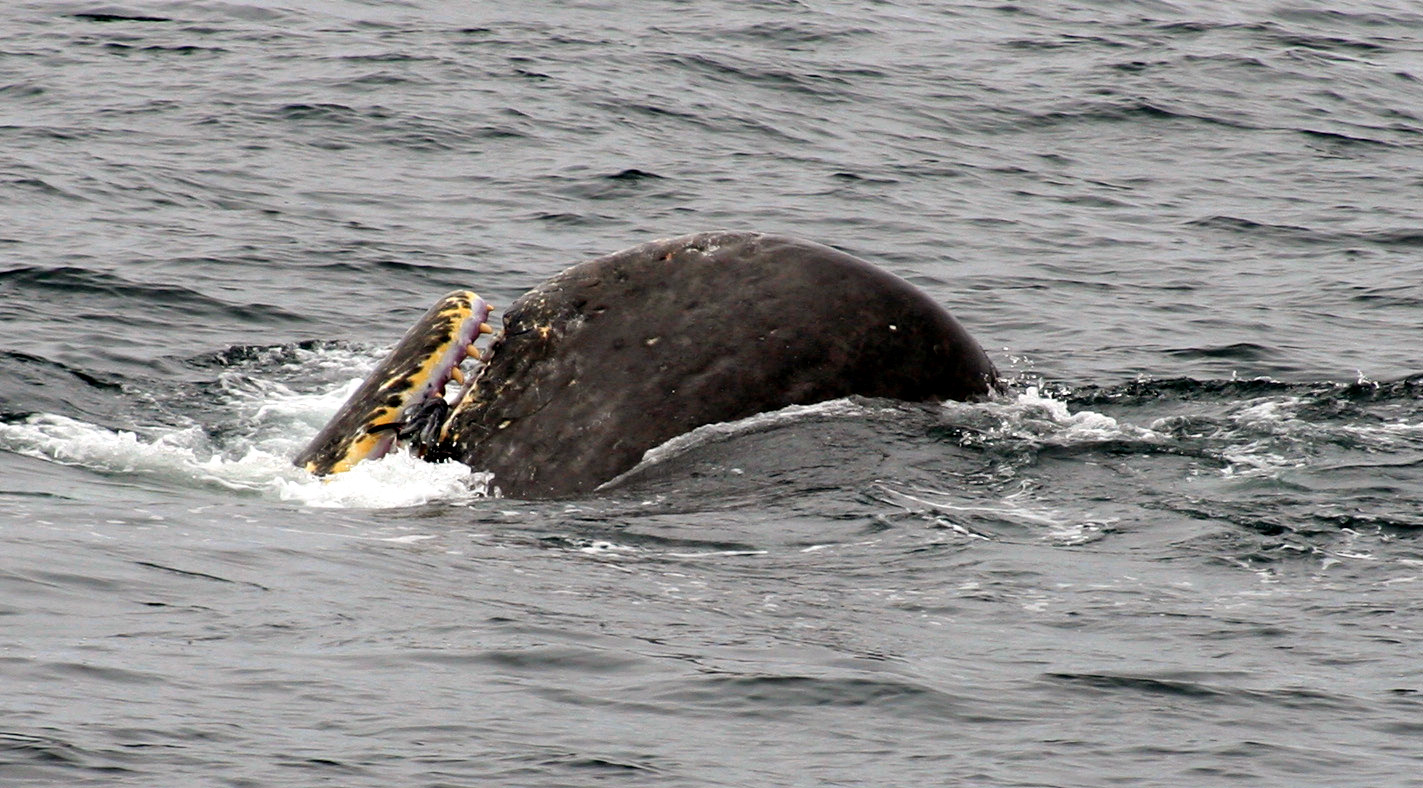 Physeter macrocephalus eating a fish. This excited the crew of the guide boat. You can see a large fish in its mouth. Surface feeding is apparently not normal behaviour.